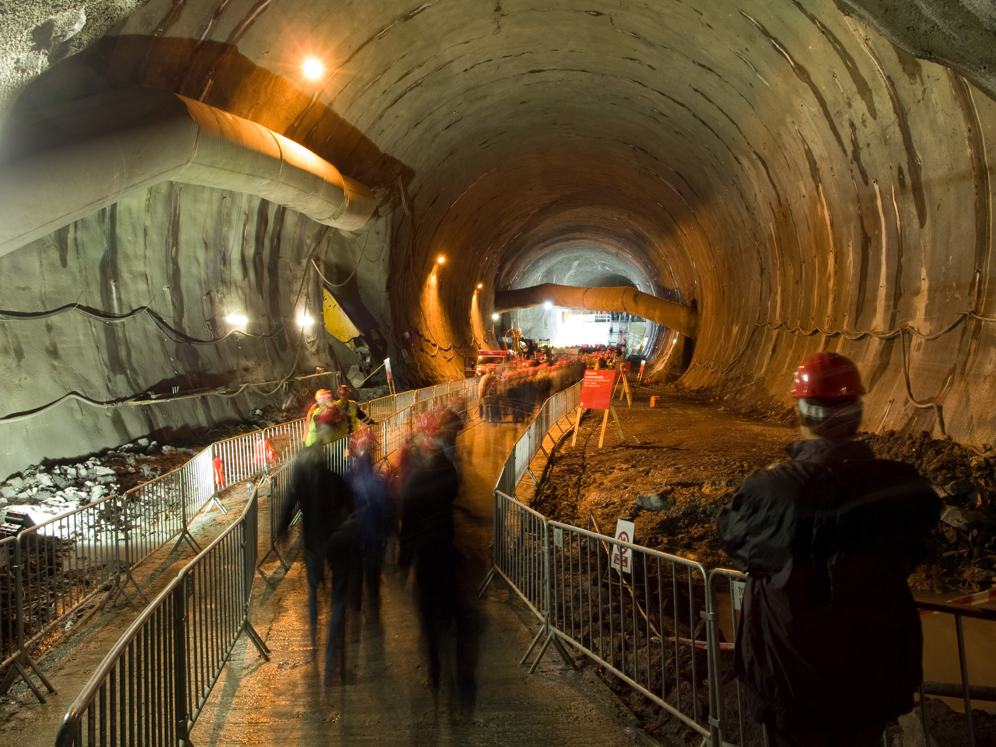 Špejchar – Troja segment, Open doors days in Blanka tunnel in september 2010, Prague